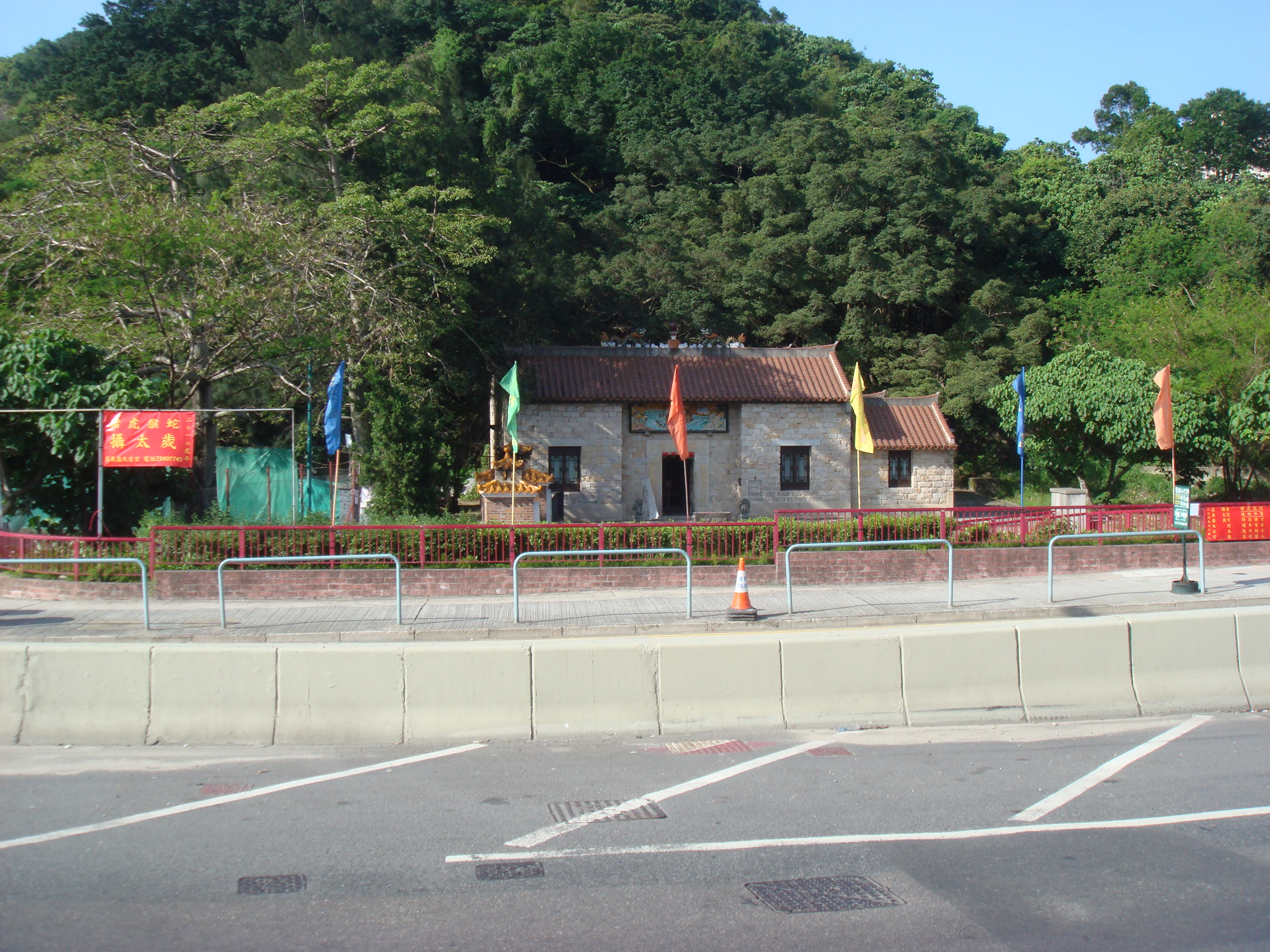 Tin Hau Temple, Cha Kwo Ling. Seen across Cha Kwo Ling Road